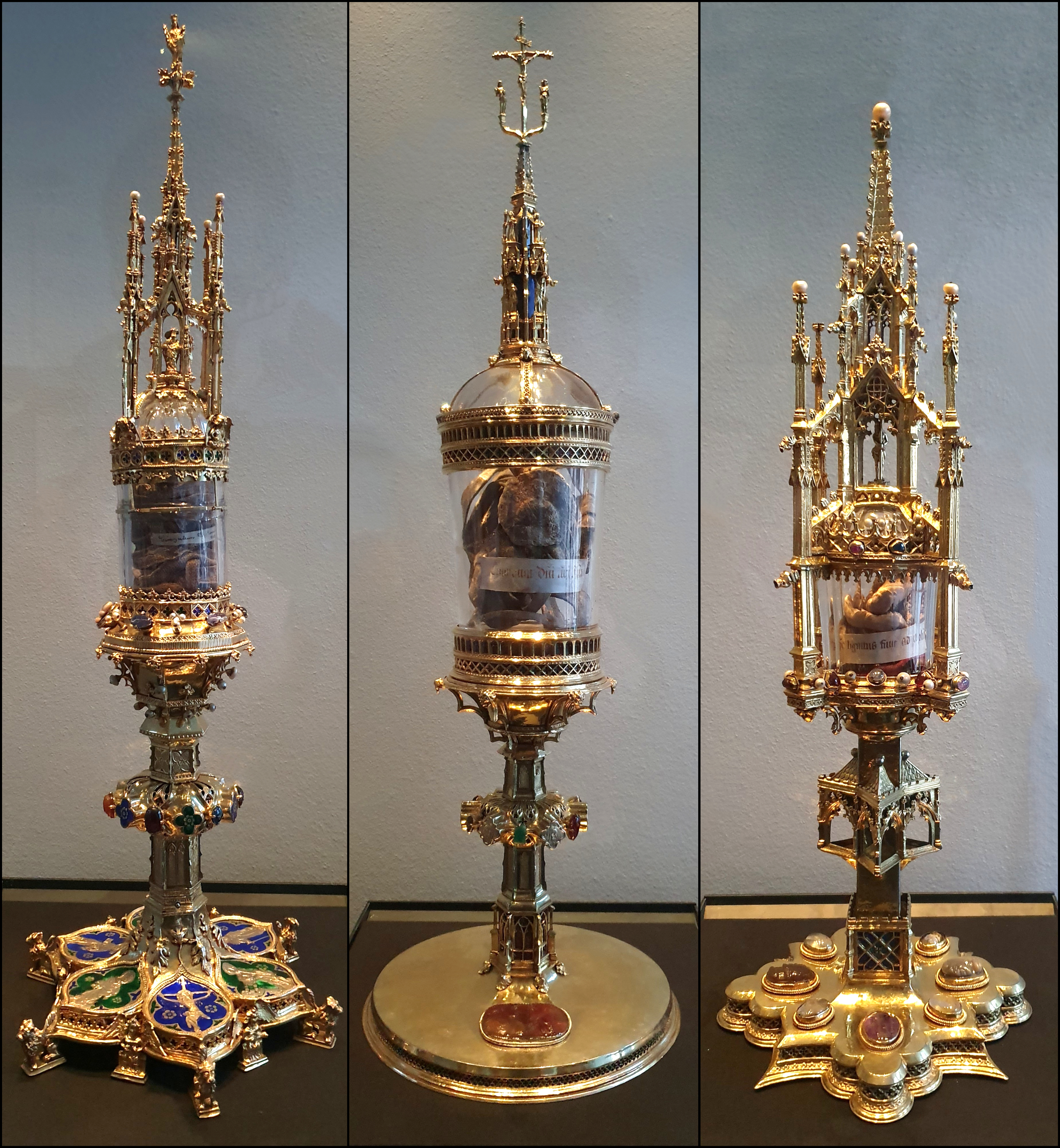 Three reliquaries of Aachen Cathedral Treasury. The relics are known as 'the three small relics'. On the left: Reliquary for a girdle of the Virgin Mary (probably Prague, circa 1360). In the middle: Reliquary for a girdle of Christ (probably Prague, circa 1370/80). On the right: Reliquary for the scourge of Christ (probably Prague, circa 1380).